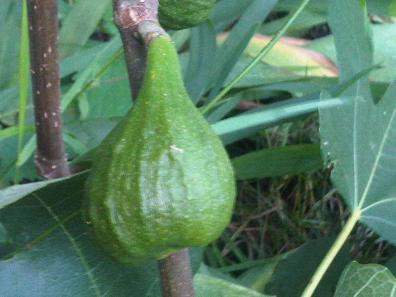 The fruit of the Common fig (Ficus carica) in London, England.